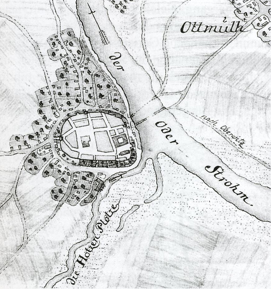 The fortified town of Krapkowice